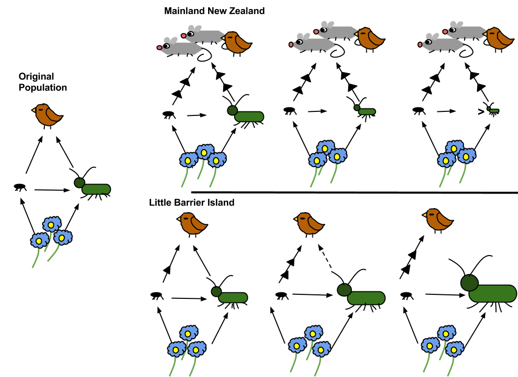 Island Gigantism: This diagram displays the change of the weta species in two different ecosystems. The physical size and the population size of the weta is affected by the predation rate. A species of rat was introduced on the mainland. The rats then began to take over and prey on wetas. The high amount of a foreign predators decreases the amount of wetas drastically. As shown on the diagram, the weta shrinks in size, representing the drop in population and health of the species. The bottom diagram displays island gigantism. Island gigantism is the principle that species on an island isolated from predation will thrive due to more resources and less predation. The wetas are an example of this because on Little Barrier Island they have grown to a massive size for their species and have a high population. The Little Barrier Island wetas do not have rats preying on them, unlike those on the mainland. This has enabled them to grow to their great size. The giant weta species on islands are the only ones not facing extinction due to their geological advantage of being separated from the introduced rats. The diagram shows the growth of the weta as time goes on while also displaying how the birds begin to prey on them less due to their size.